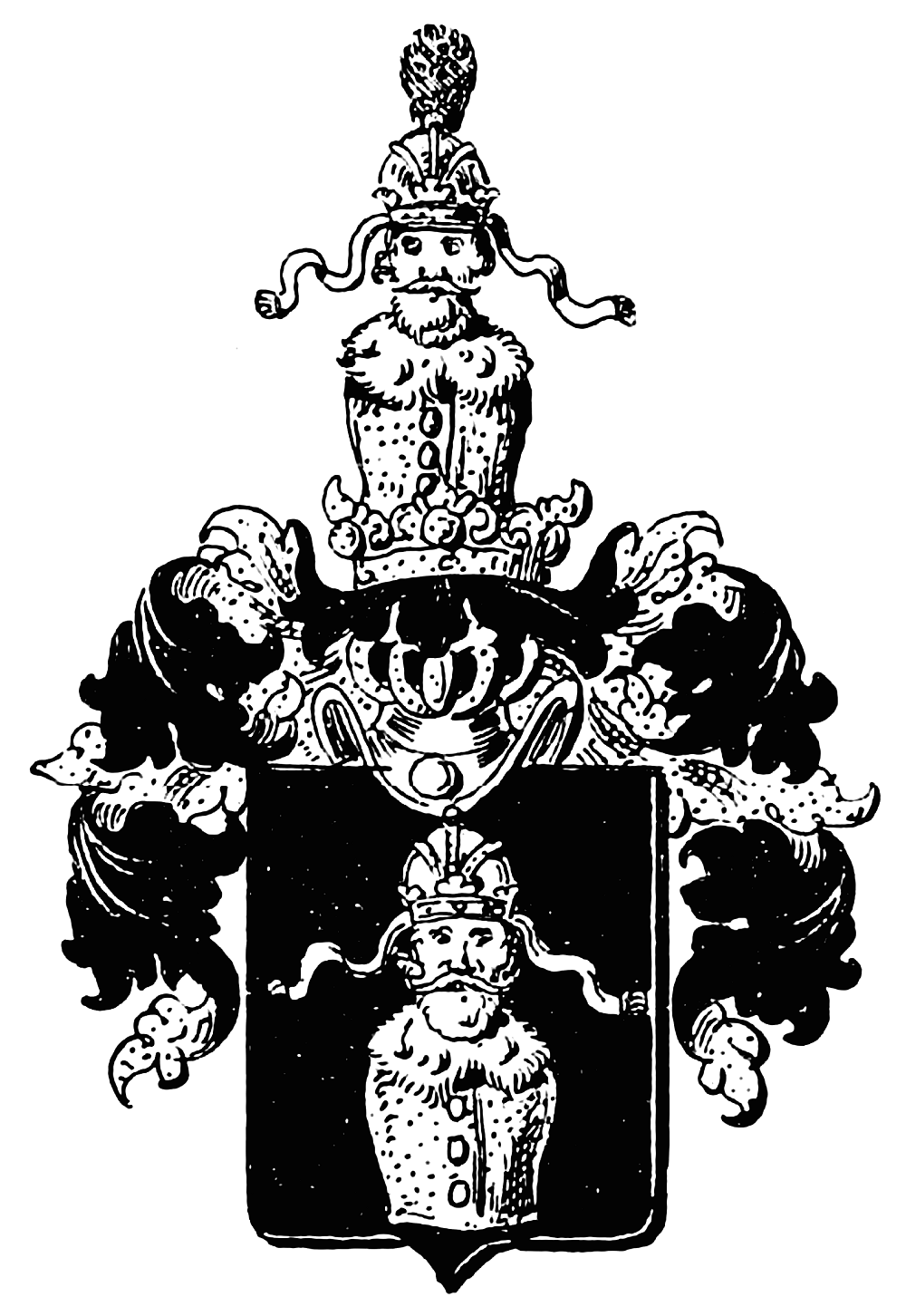 Coat of Arms of Haiden zu Gundersdorf, Austria